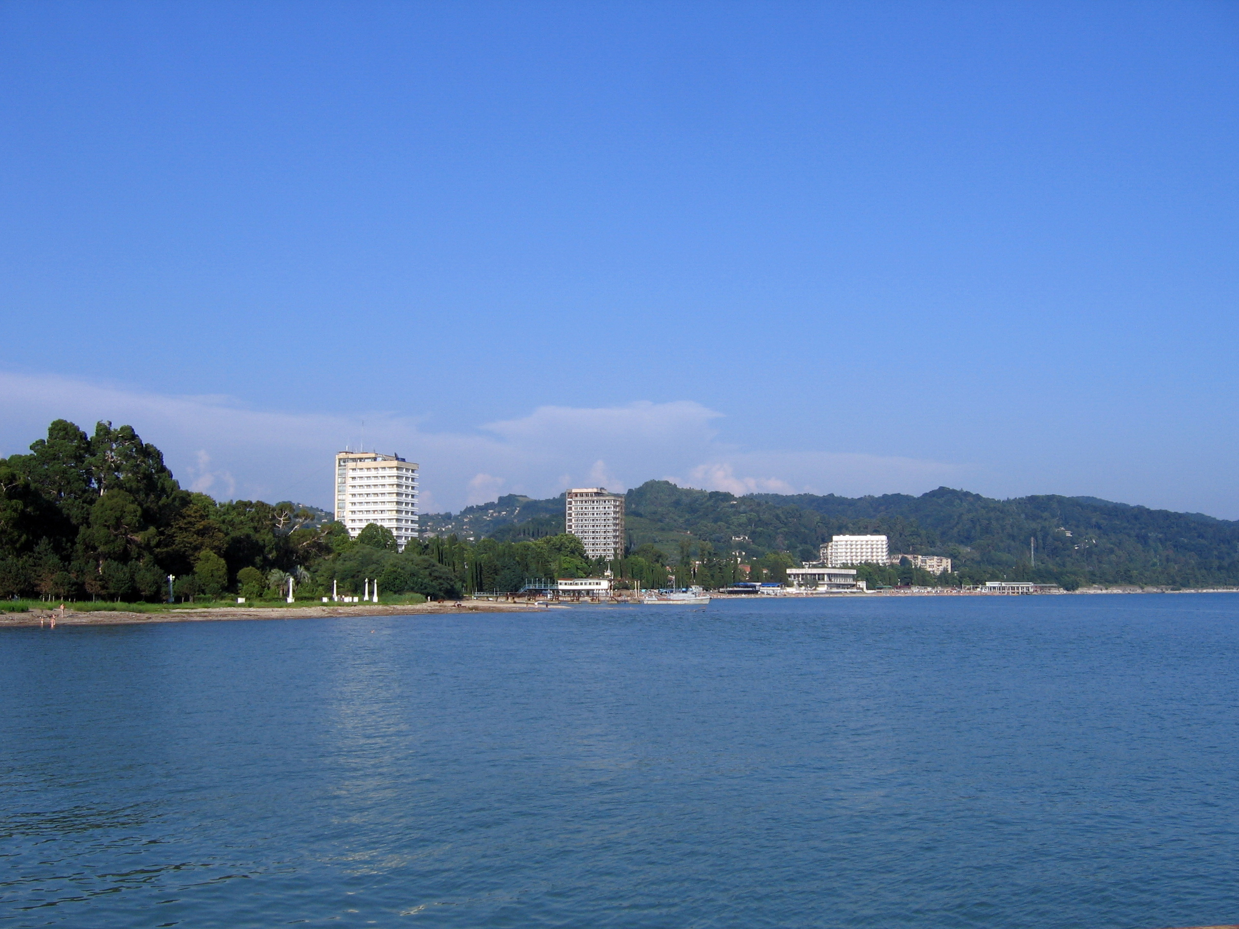 Sanatoria RVSN and MVO. View from quay. Sukhum. Abkhazia